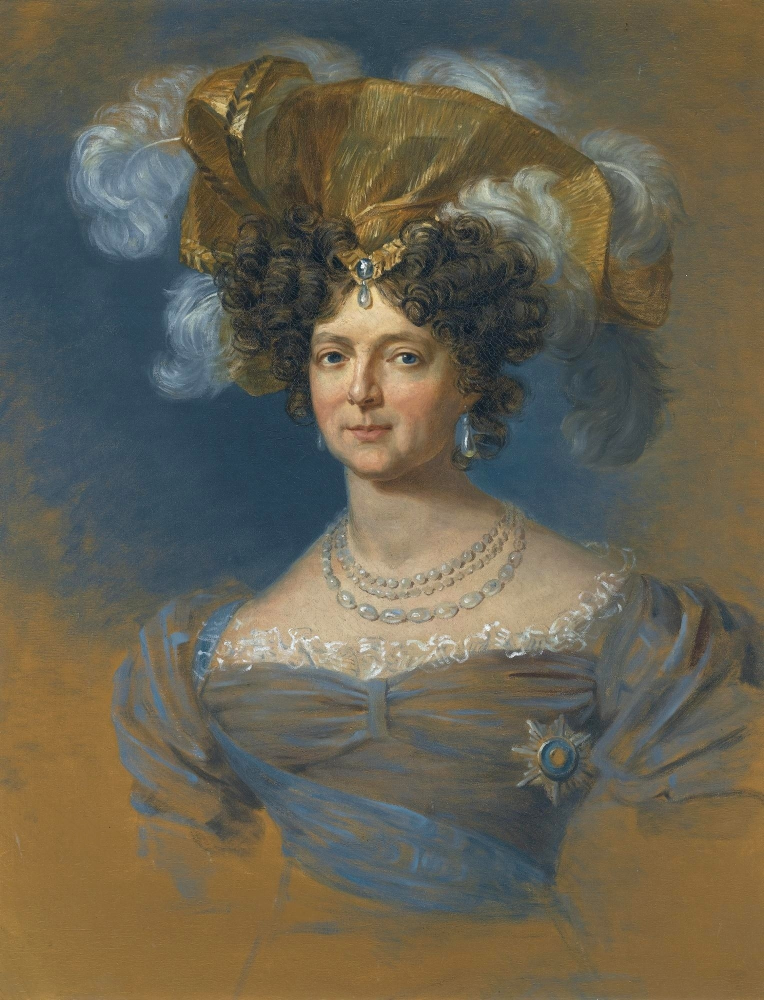 Portrait of empress Maria Feodorovna (1759-1828)